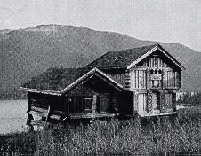 Motiv from farm of Lognvik Søndre, Rauland in Telemark, Norway